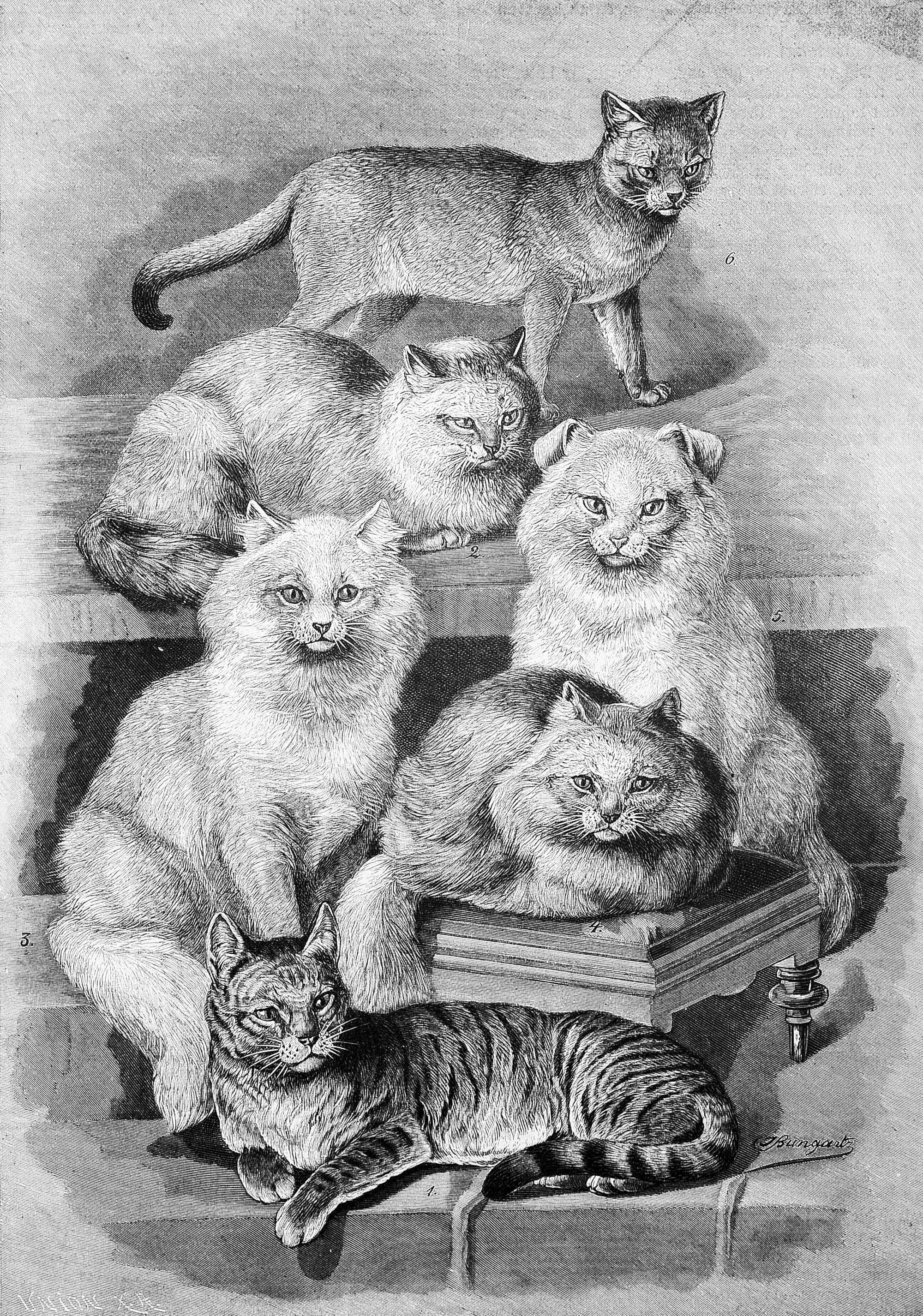 caption: "Katzenrassen. Nach einer Originalzeichnung von J. Bungartz. 1. Cyperkatze. 2. Karthäuserkatze. 3. Angorakatze. 4. Khorassankatze. 5. Chinesische Katze. 6. Siamesische Katze."